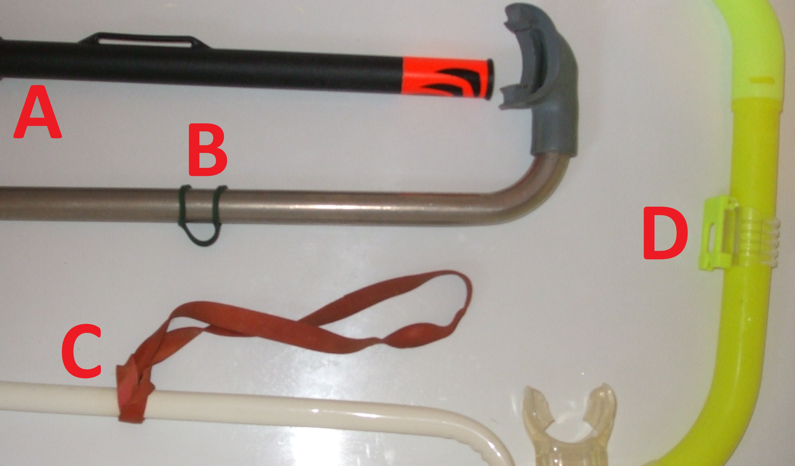 Four methods of snorkel attachment are illustrated. Method A: The mask strap is threaded through the fixed loop moulded onto the snorkel barrel. Method B: The mask strap is threaded through the adjustable and removable rubber loop on the snorkel barrel. Method C: An attachment method discontinued after the 1950s, the rubber band knotted at one end to the snorkel barrel is stretched at the other end around the head. Method D: The mask strap is threaded through the plastic snorkel keeper fitted to the snorkel barrel.